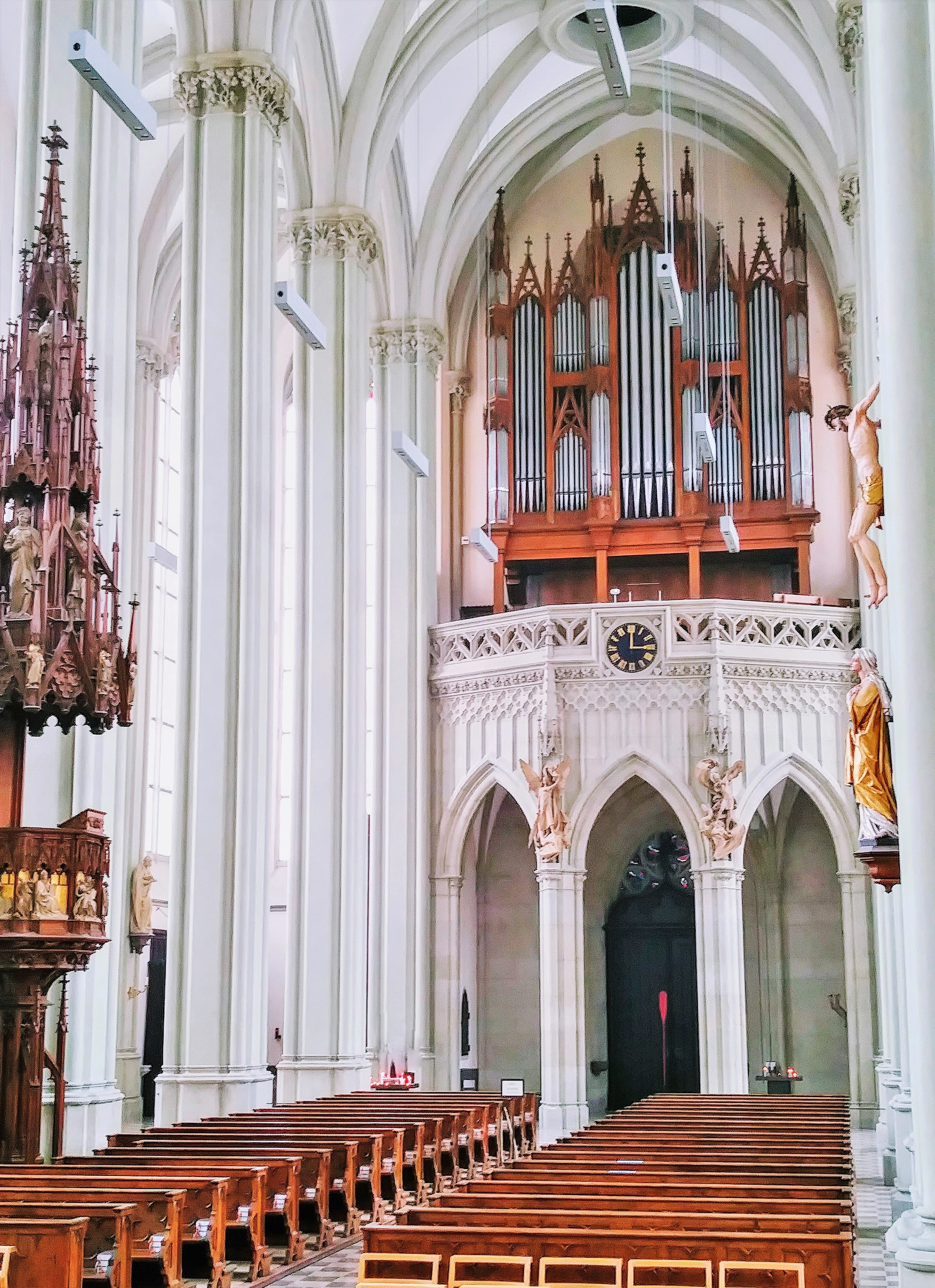 Interior of Heilig-Kreuz-Kirche (Giesing)